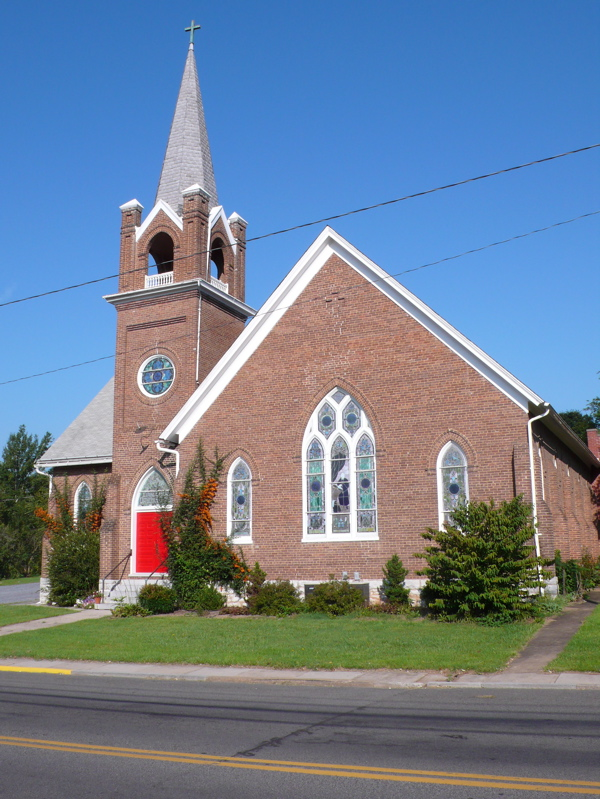 St Peters Lutheran Church in Toms Brook, Virginia.